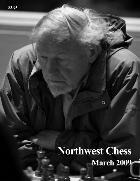 Viktors Pupols, Photograph by Philip Peterson